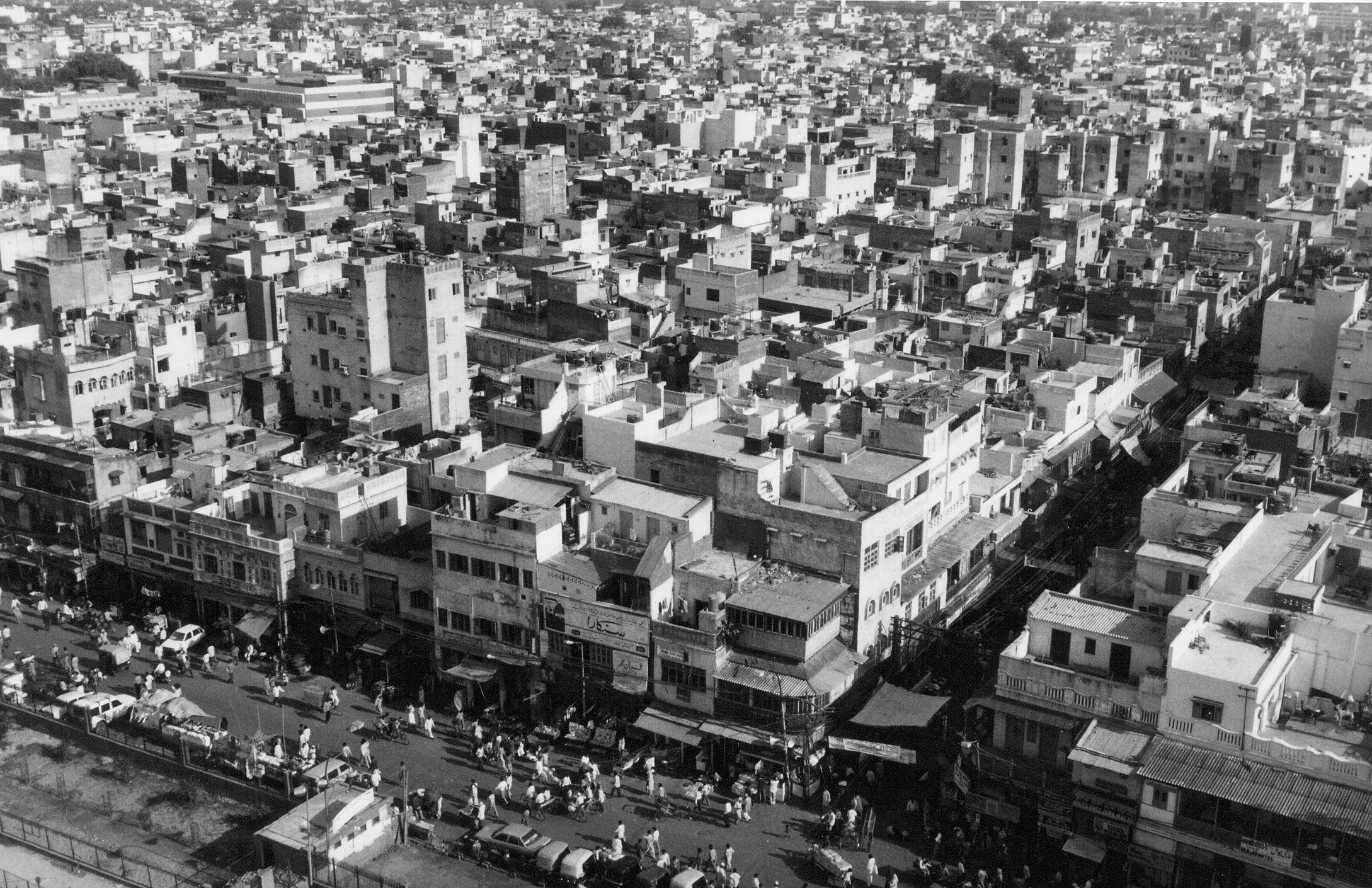 View from the top of the Jama Masjid Minaret New Delhi